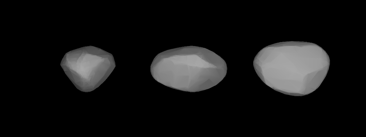 A three-dimensional model of 900 Rosalinde that was computed using light curve inversion techniques.